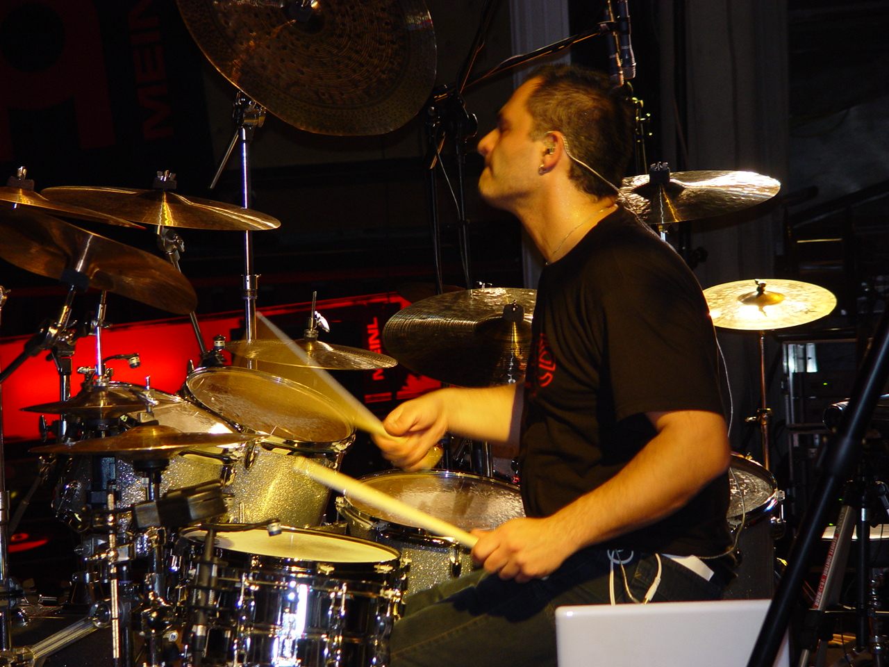 Zacky playing @ Ludwigsburger Trommeltage, Photo was shoot by me